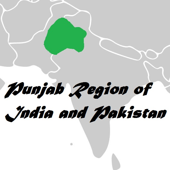 Punjab region of India and Pakistan. Includes Pakistani and Indian Punjab, Himachal Pradesh, Haryana, Parts of Khyber Pakhtunkhwa, and parts of Rajasthan on border with Punjab and Haryana